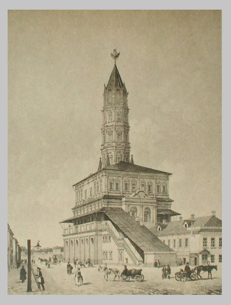 Suharev Tower